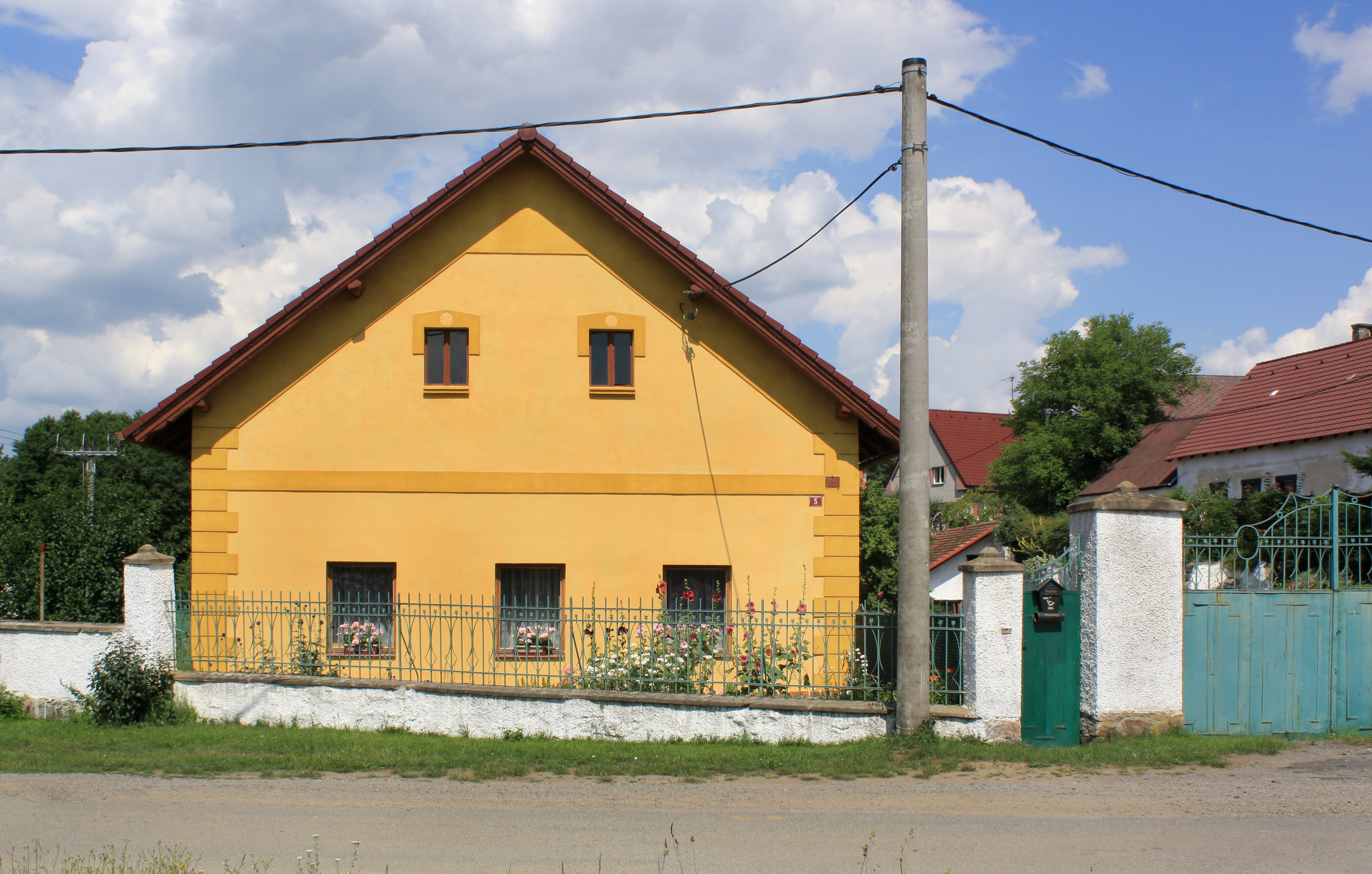 House No. 5 in Hvozdec, part of Poříčí nad Sázavou, Czech Republic